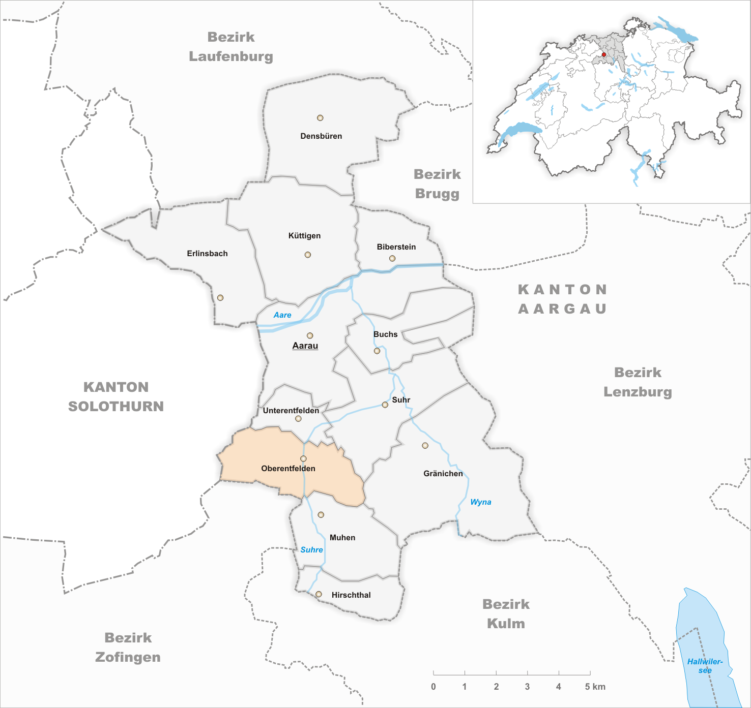 Municipality Oberentfelden